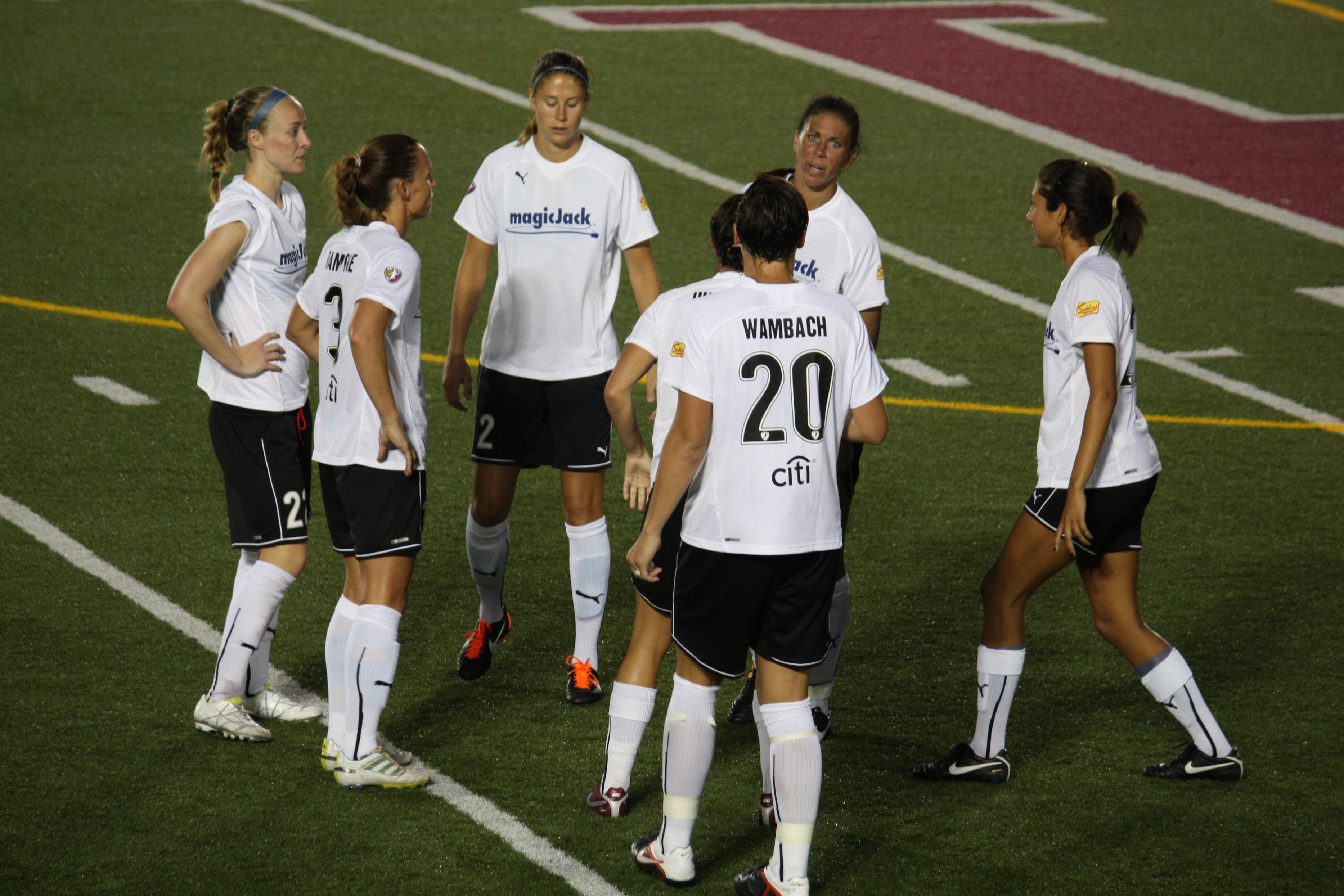 magicJack players gather at midfield for the start of the second half during magicJack's 2-0 win over the Boston Breakers, Saturday, August 6 at Harvard Stadium in Boston, Mass.